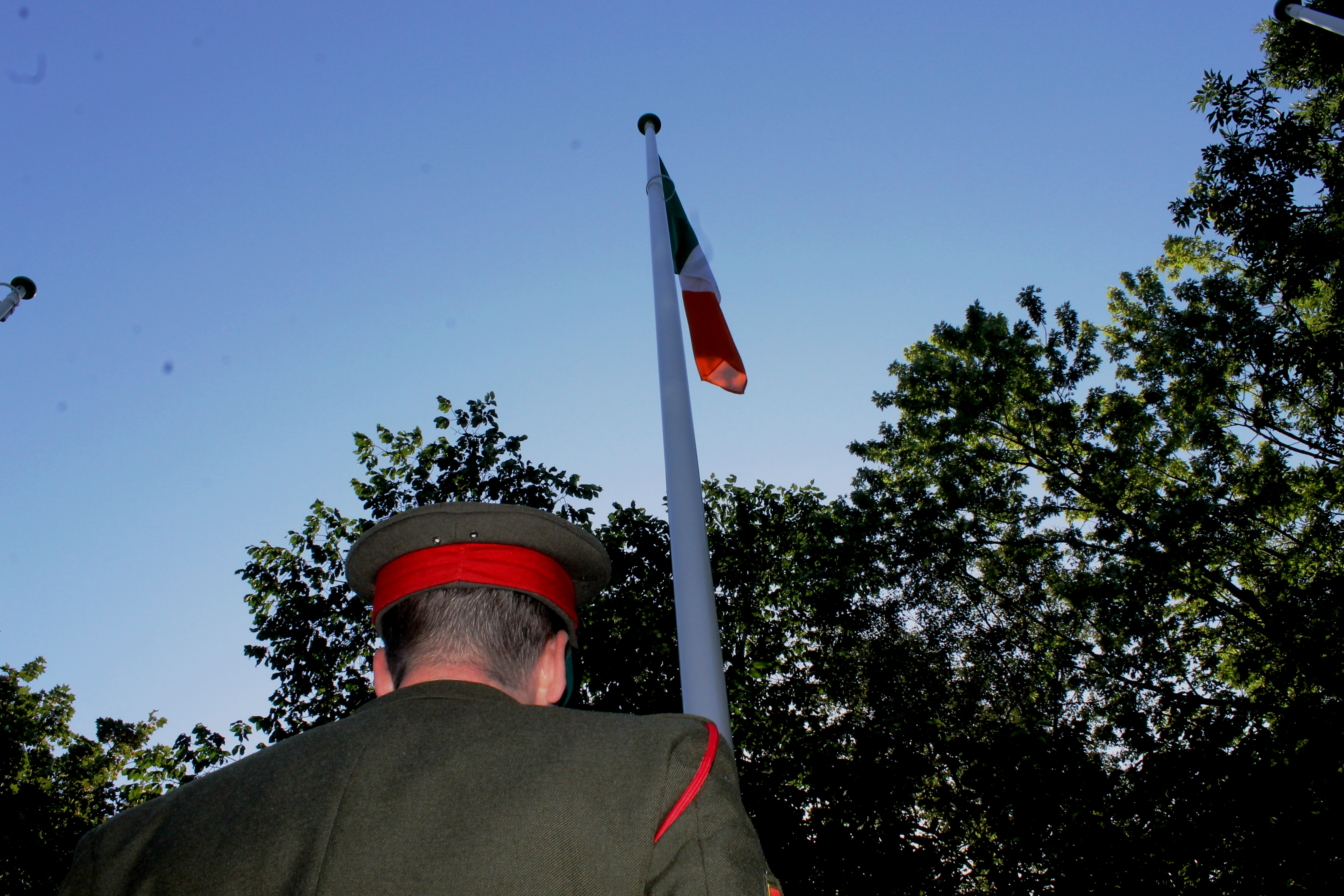 MP on duty at monument